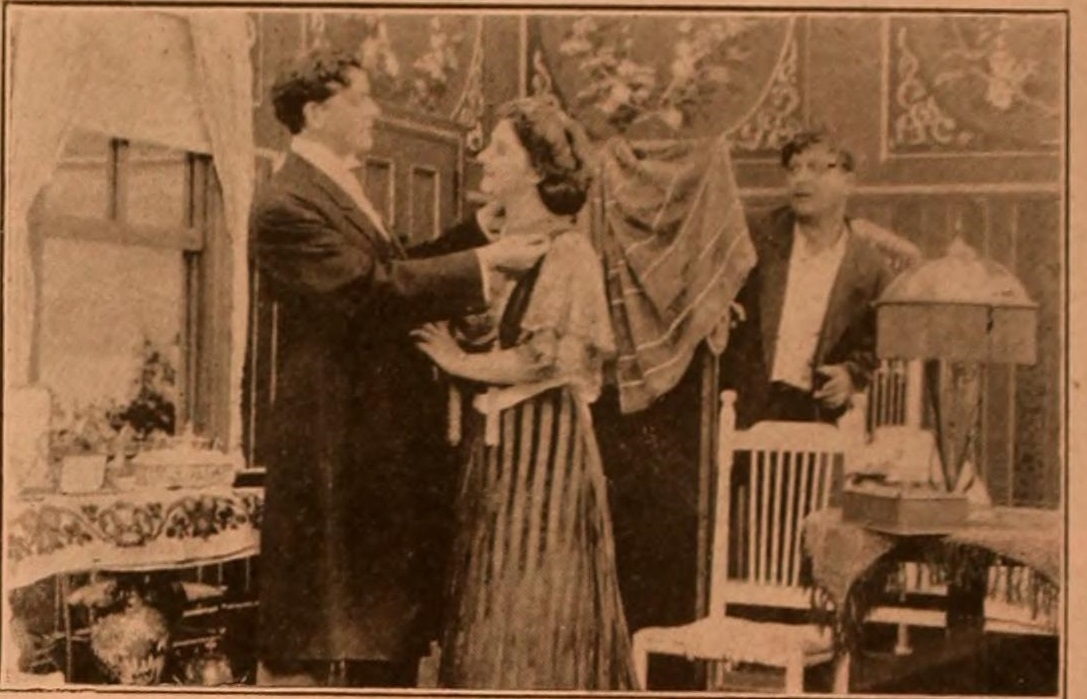 A film still from Tangled Lives (1910) by the Thanhouser Company.